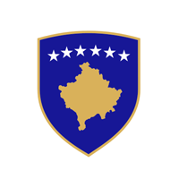 Coat of arms of Kosovo (old version)